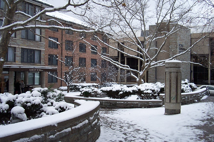 All the Class Halls and Noyes will soon be gone. Well, don't really miss them.